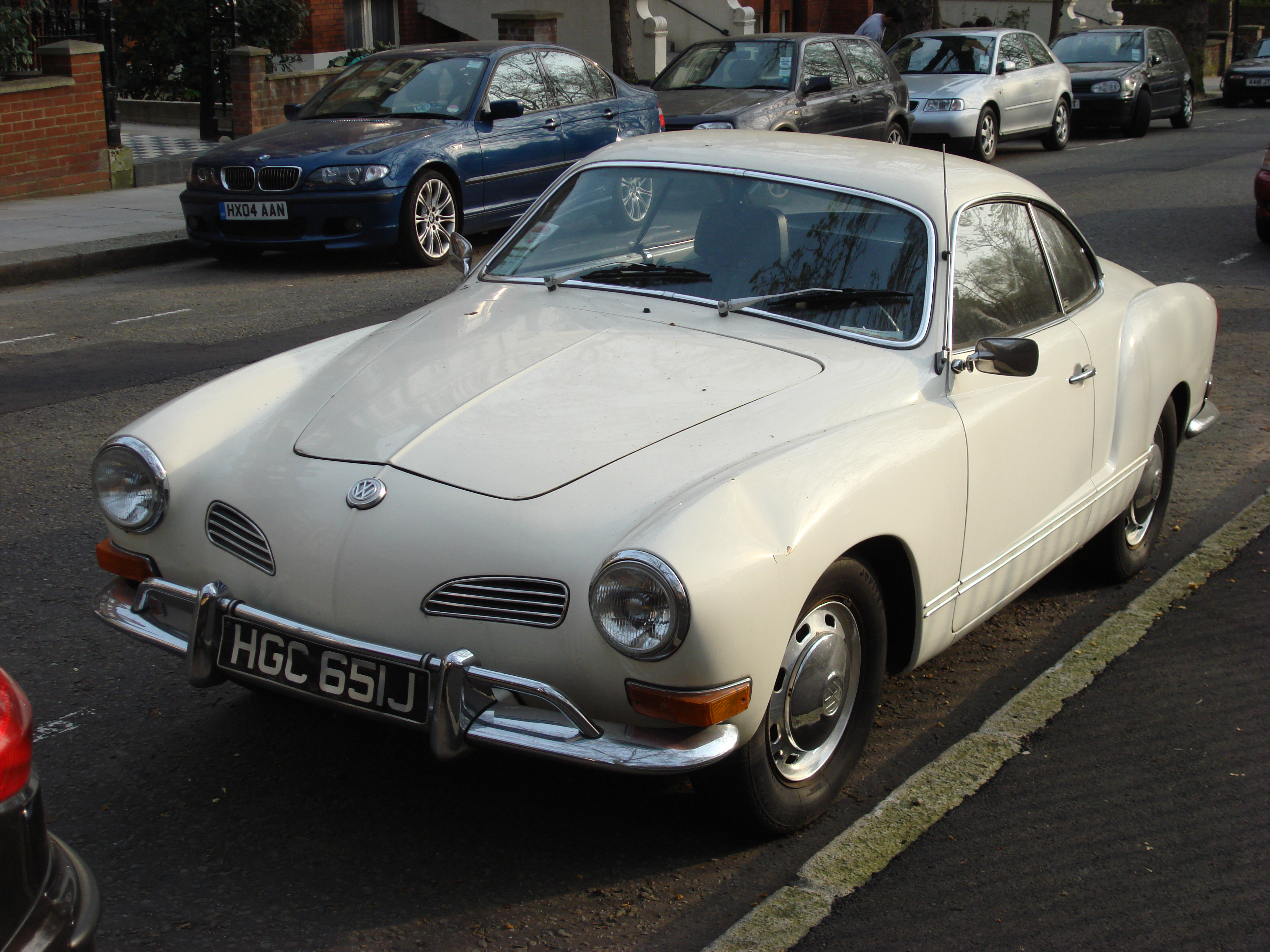 A white Volkswagen Type 14 Karmann Ghia in London UK